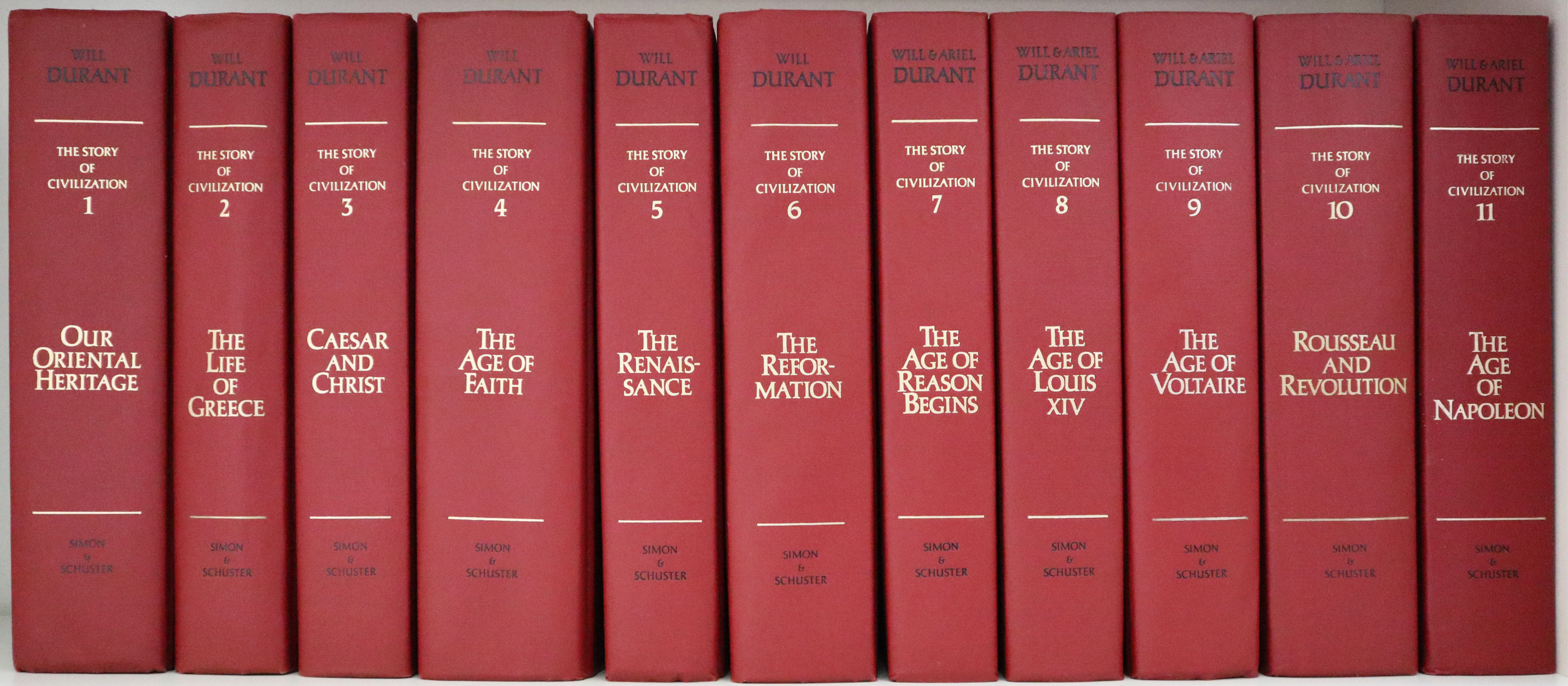 The 11 volumes of the "Story of Civilization" by Will and Ariel Durant. A visual companion to this work is at . Please credit if using this file outside of Wikipedia.